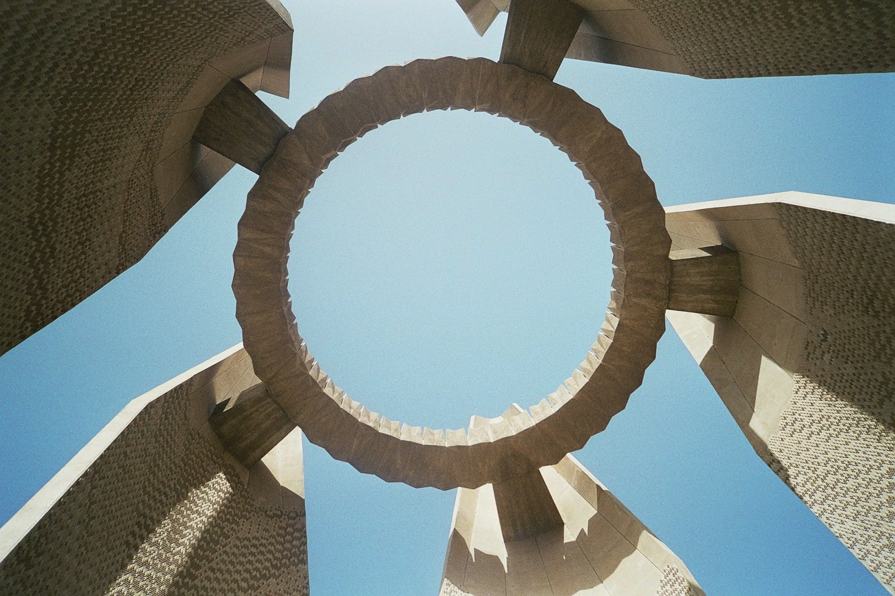 Aswan High Dam Monument from inside